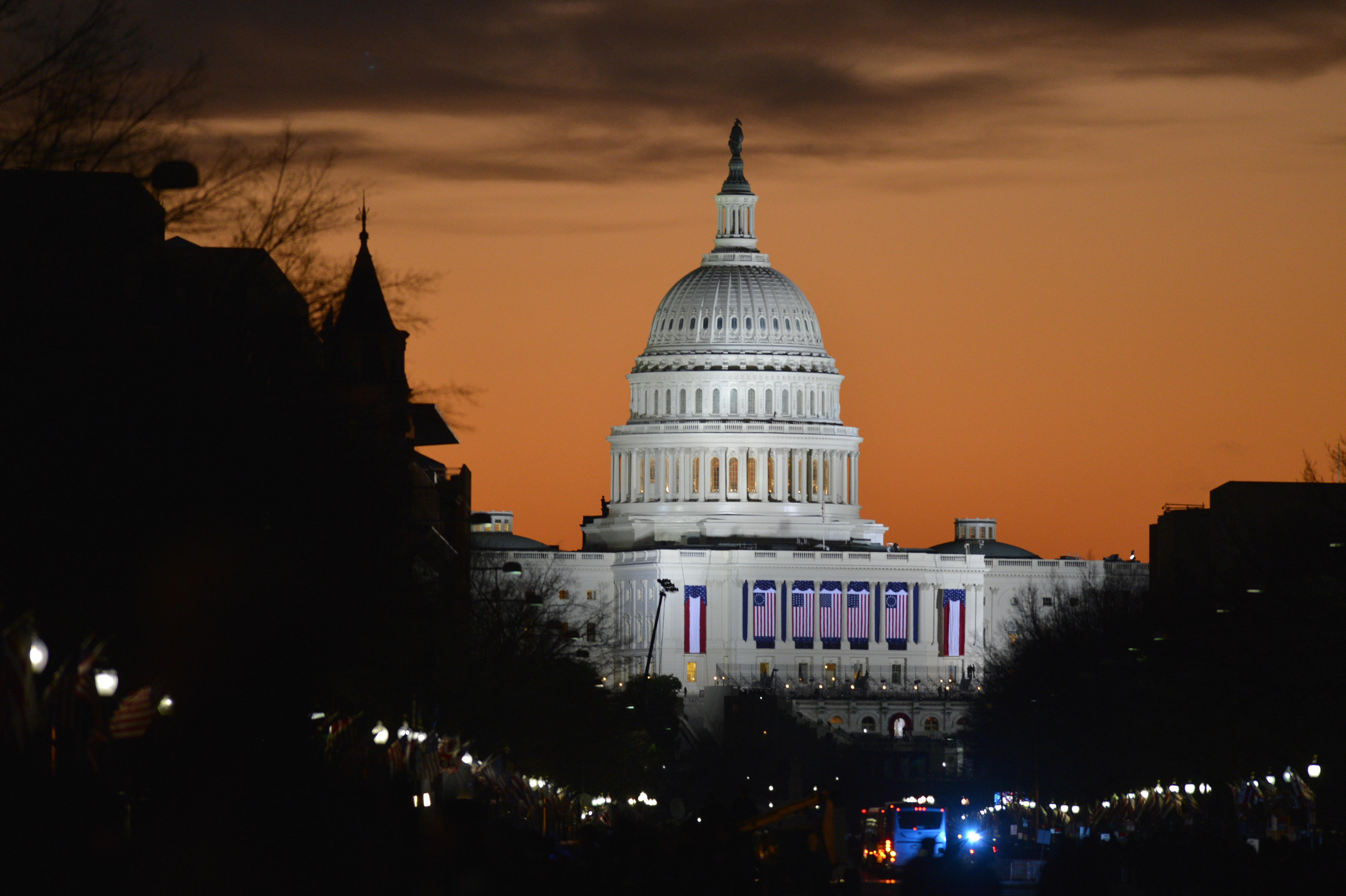 The sun rises over U.S. Capitol before the public swearing in ceremony during the 57th Presidential Inauguration in Washington, D.C, Jan. 21, 2013. More than 5,000 service members from all five branches of the military are working with Joint Task Force -- National Capital Region in Washington, D.C. to support the inauguration. (U.S. Marine Corps photo by Cpl. Christina O'Neil) See also Presidential Inauguration (Image 18 of 21)